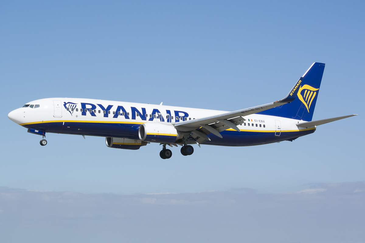 Ryanair Boeing 737-8AS EI-EBX at Leeds Bradford Airport.